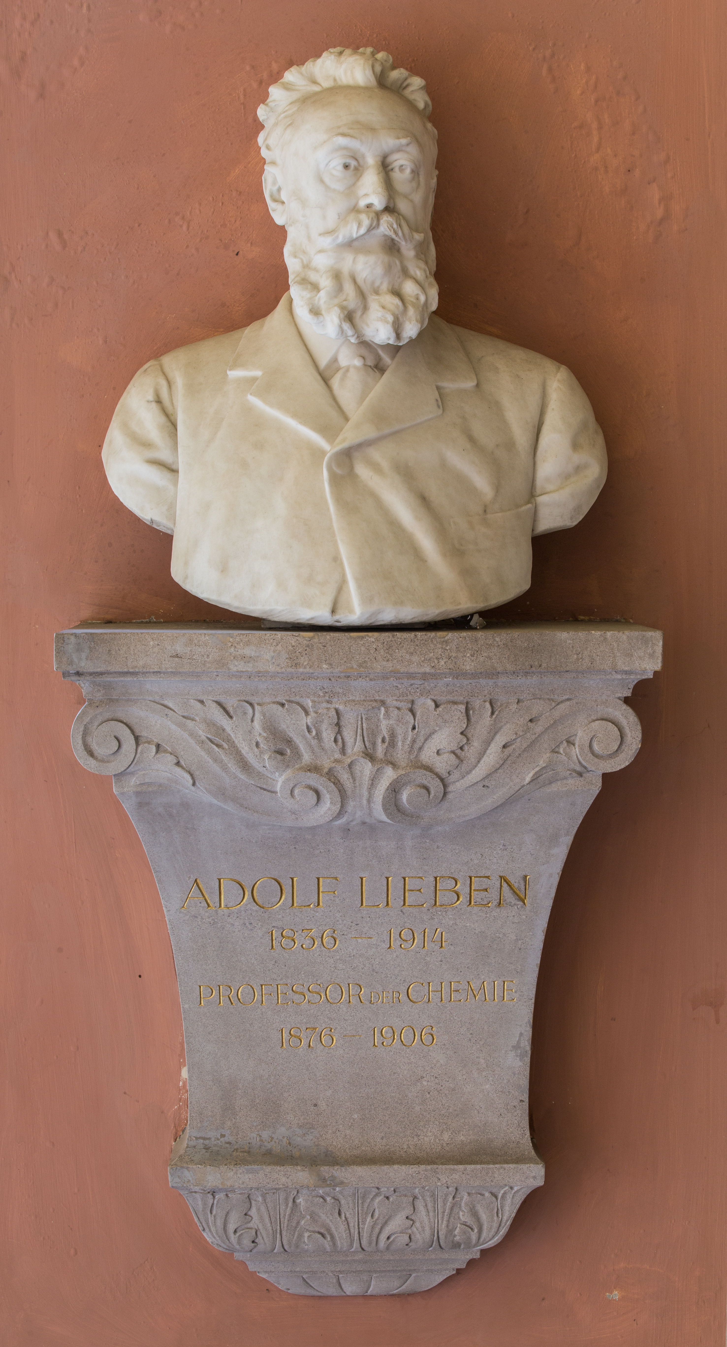 Adolf Lieben (1836-1914), bust (marble) in the Arkadenhof of the University of Vienna, (Maisel# 61). Artist: Carl Kundmann (1838-1919), unveiled 1922